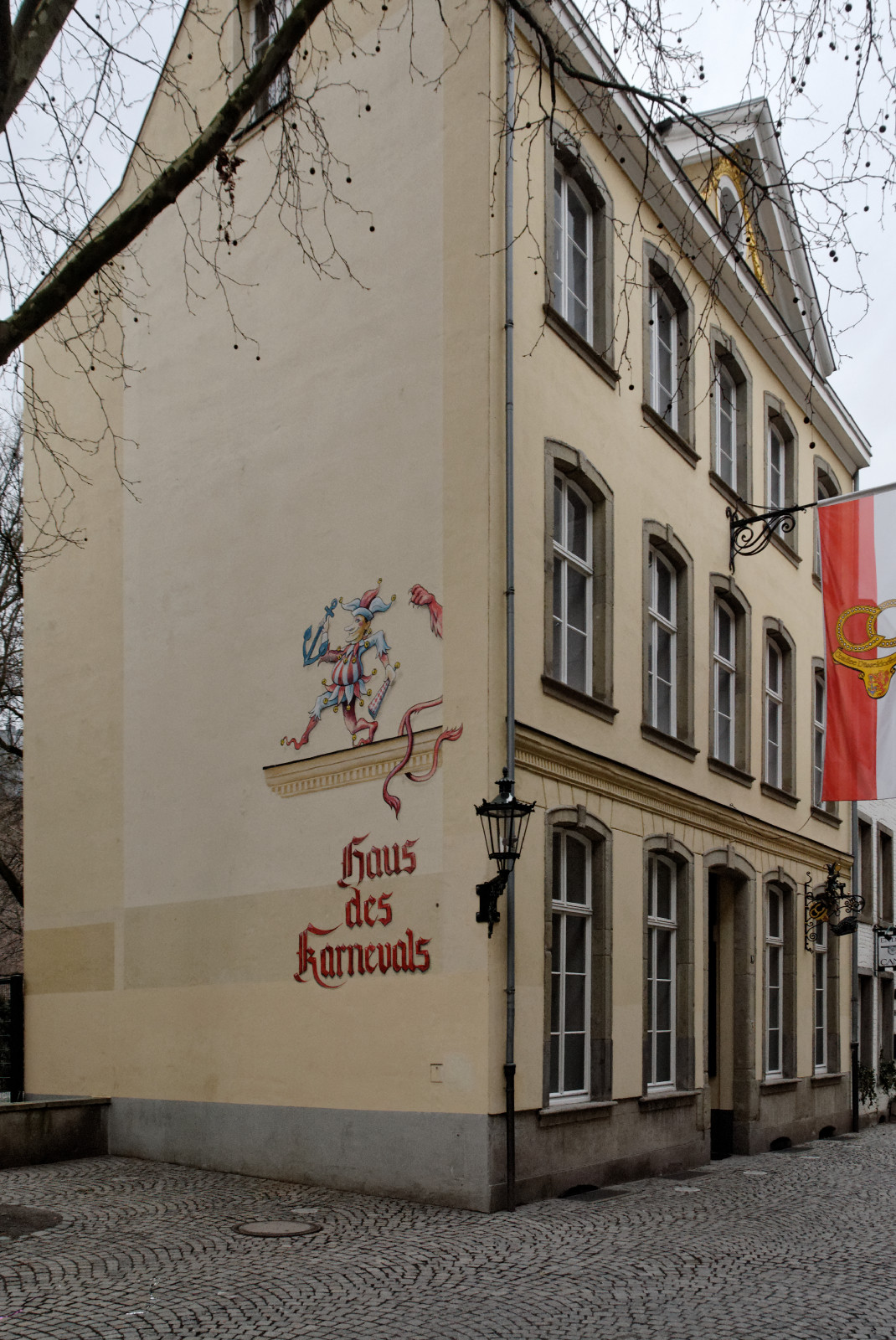 Haus des Karnevals, Zollstraße 9 in Düsseldorf-Altstadt, Germany This is the photograph of an architectural monument. It is part of the list of cultural monuments of Düsseldorf, no. 325